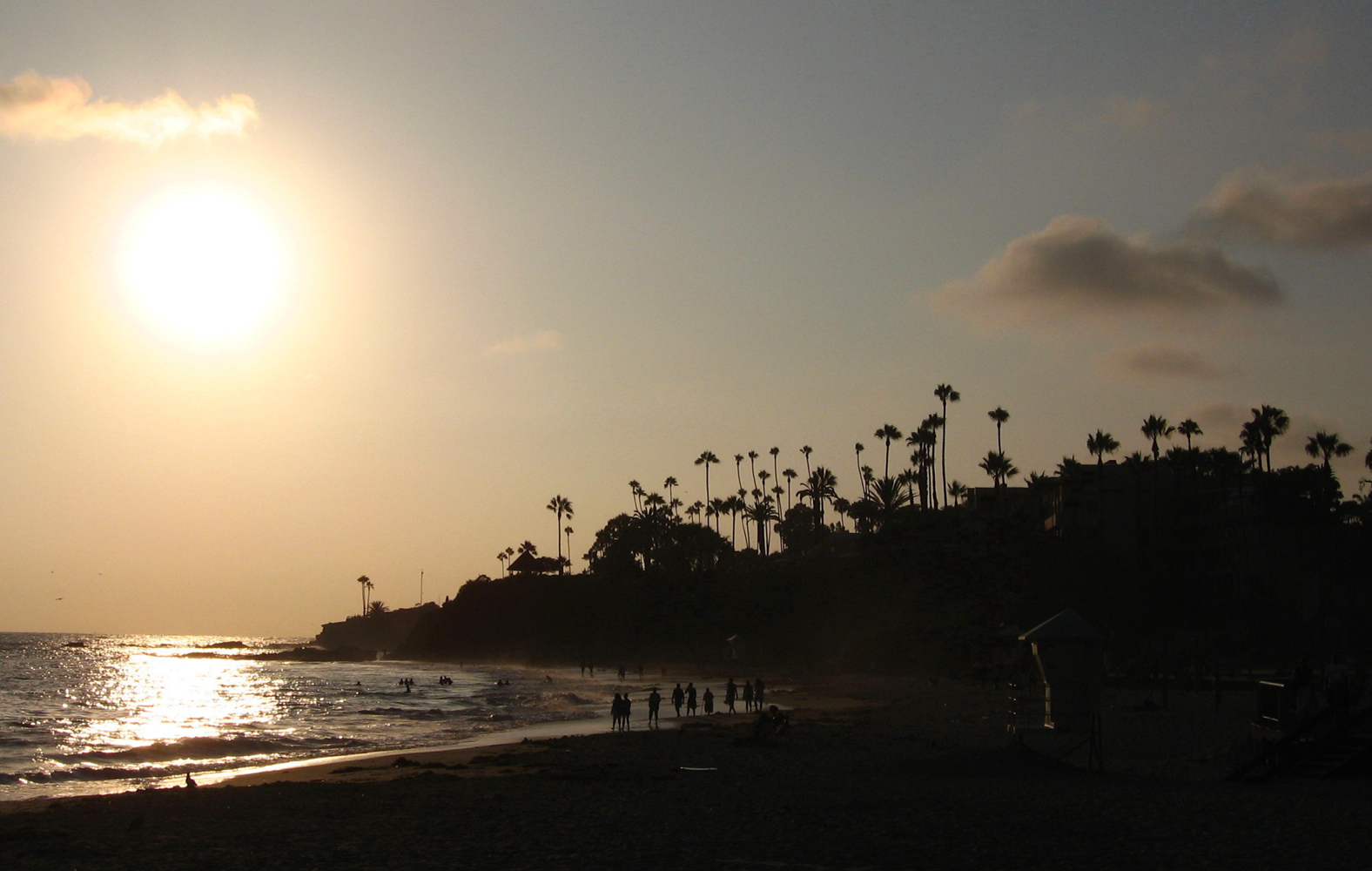 Sunset in Laguna Beach, California.